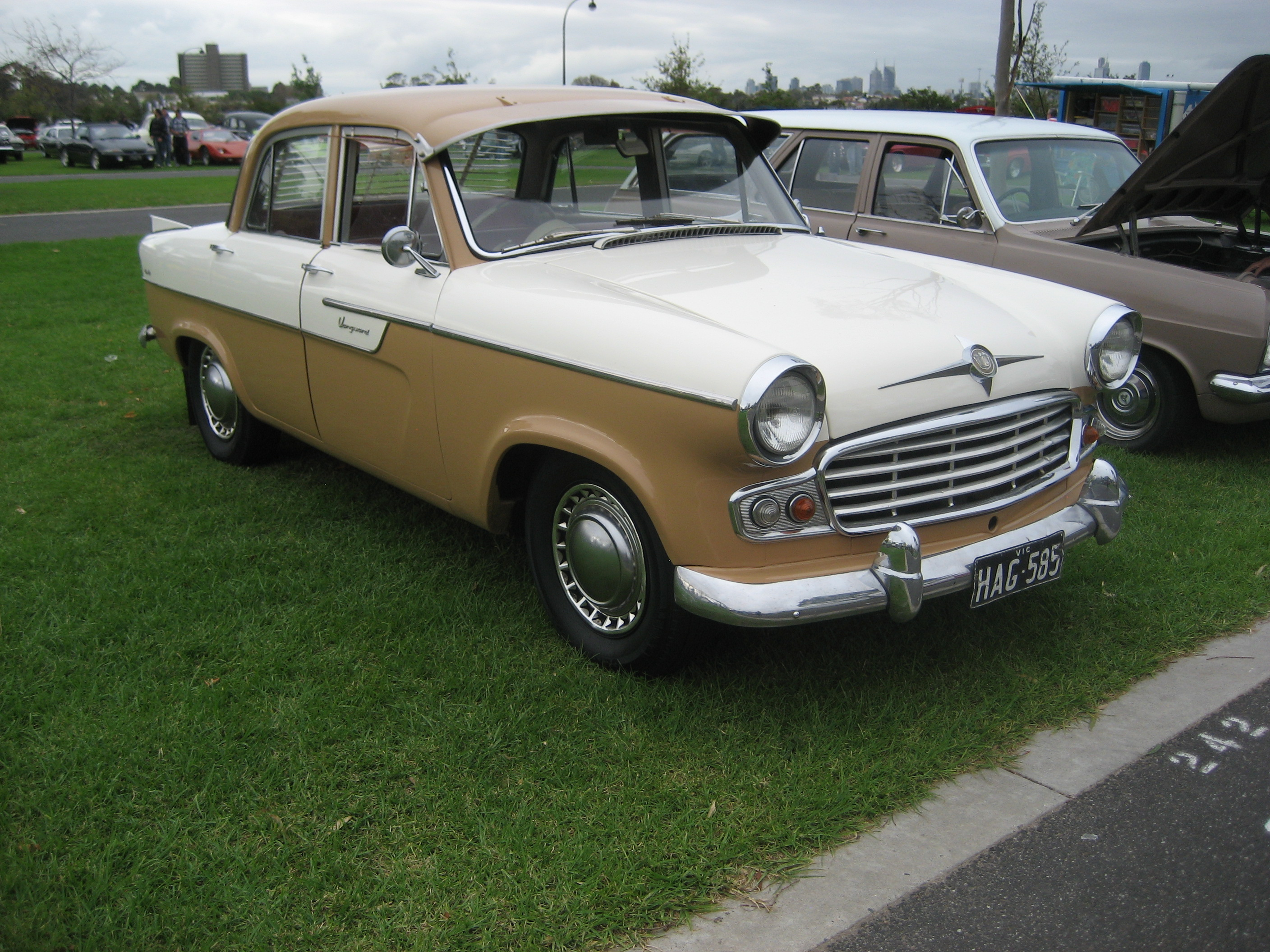 Side chrome work unique to Australia. The facelifted Phase III got deeper front and back windows and a new grille. The 4 cyl built from 1958-61; 2088cc. The 6 cyl built from 1960-63; 1998cc. The original phase III built from 1955-58. Available in Saloon, Estate, Van and the Australian Utility.